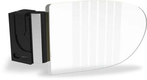 OE-45 Image